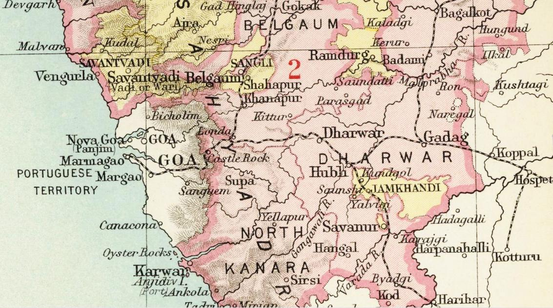 1909 Imperial Gazetteer of India Bombay Presidency II map section